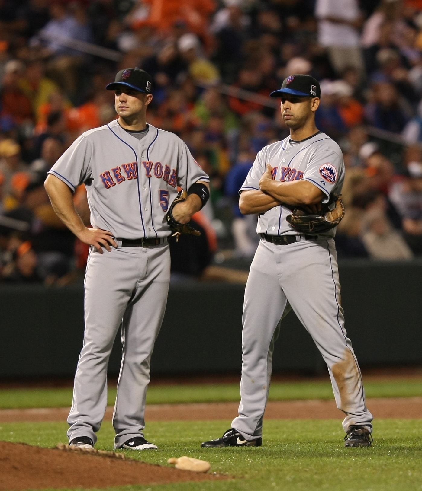 David Wright (left) and Alex Cora